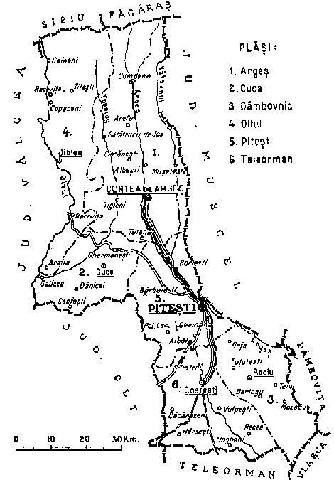 Map of Argeș interwar county, Kingdom of Romania (1938).